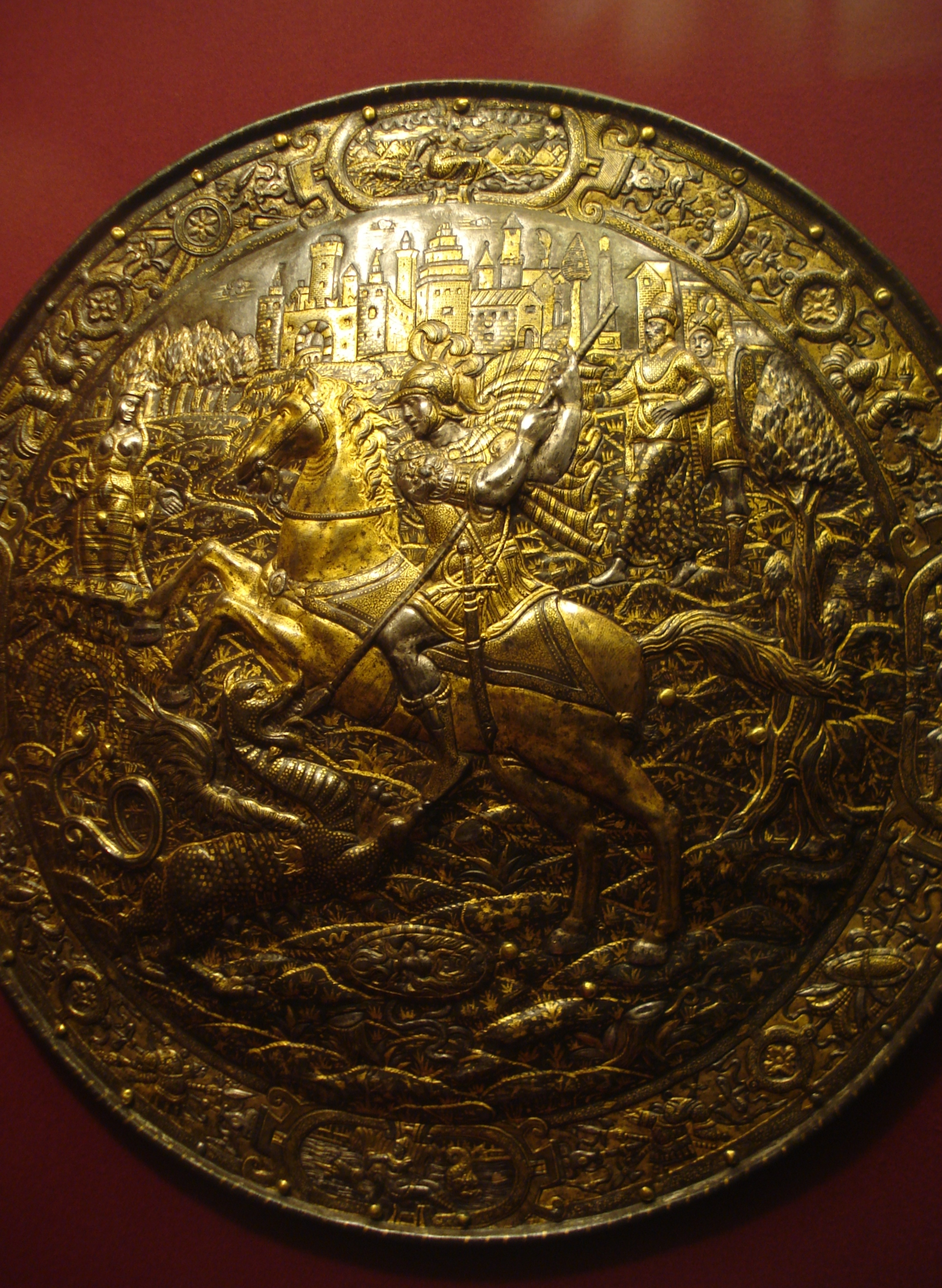 Steel shield showing St. George slaying the dragon. Embossed and damascened with silver and gold. Milan, Italy, c. 1560-1570. In the collection of the Metropolitan Museum of Art.